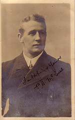 Rugby union & rugby league player